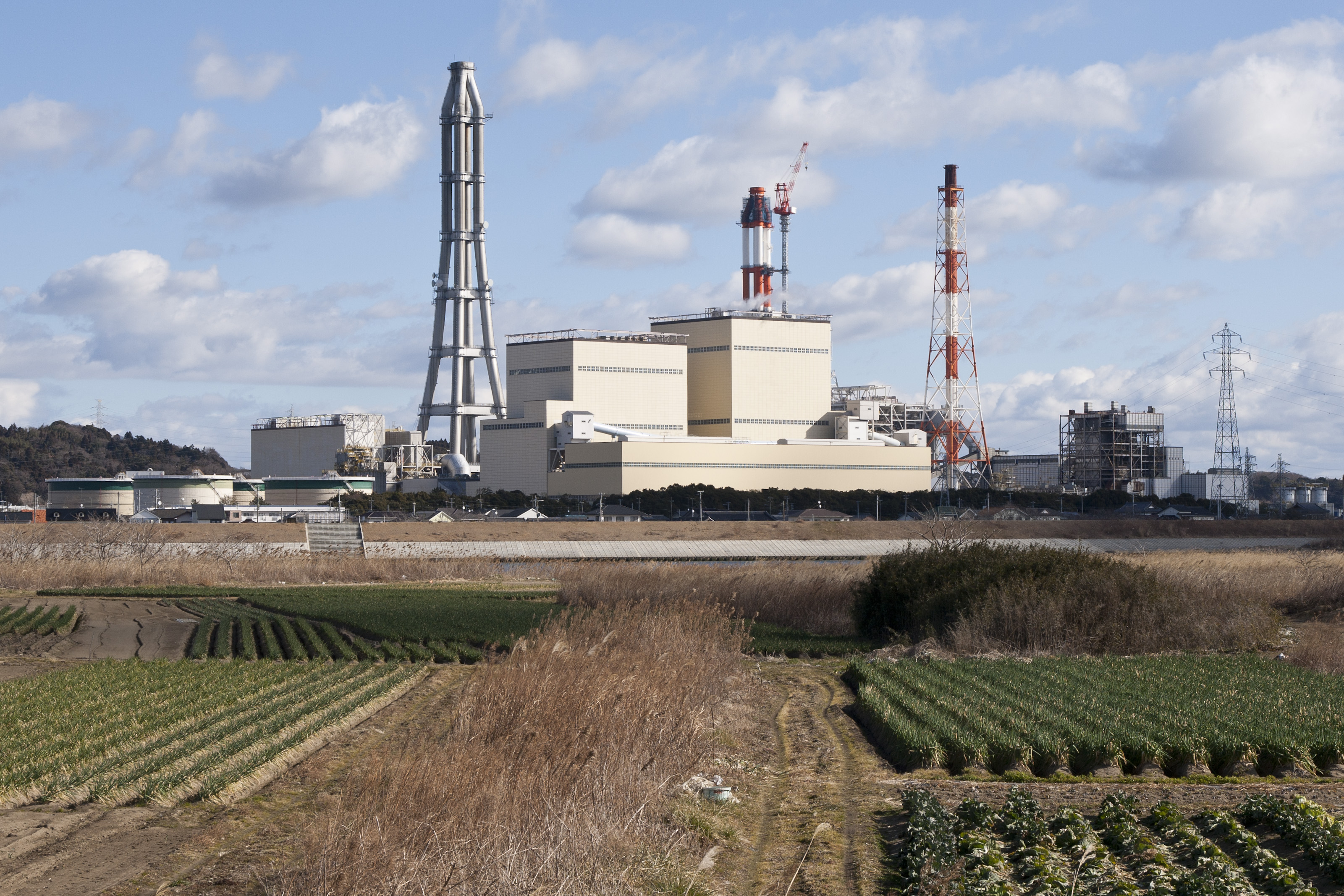 Nakoso Thermal Power Plant, Iwaki City, Fukushima Pref., Japan